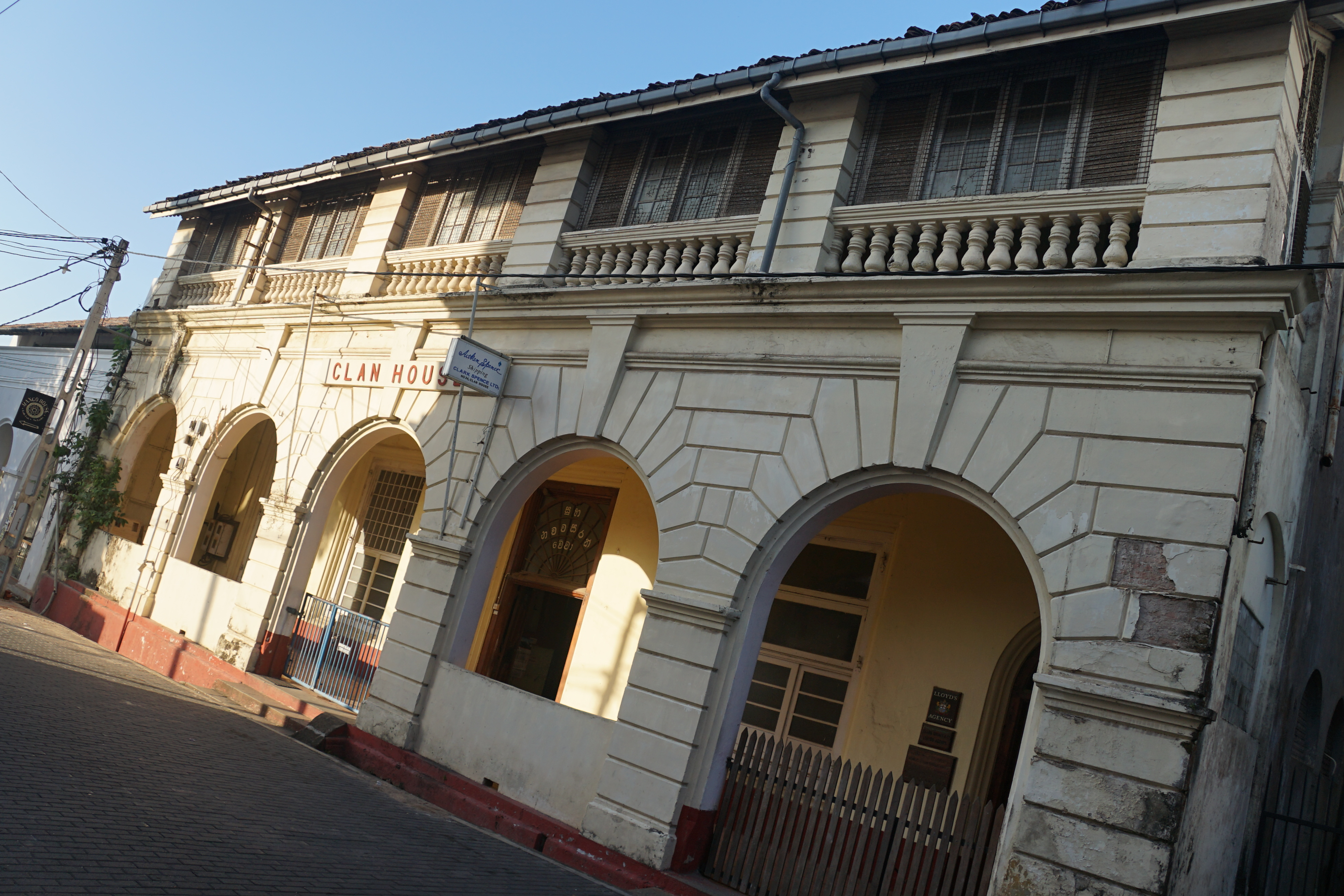 The Clan House building - 24 Church Street, Galle Fort. Built in 1847 the building housed the agency for the Clan Line shipping company. In 1868 it was purchased by Clark Spence and Company, who were the sole agent of Lloyd’s of London in Ceylon.